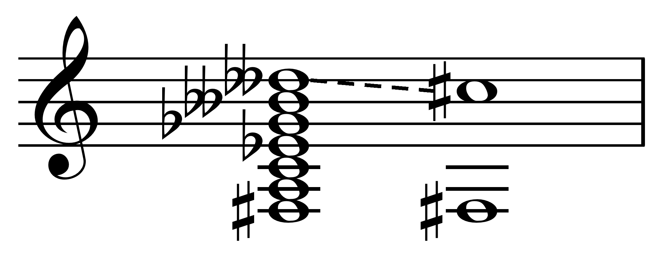 Kleisma (15625/15552 = 8.1 cents) as 6 minor thirds versus one perfect twelfth, or tritave, on F-sharp.